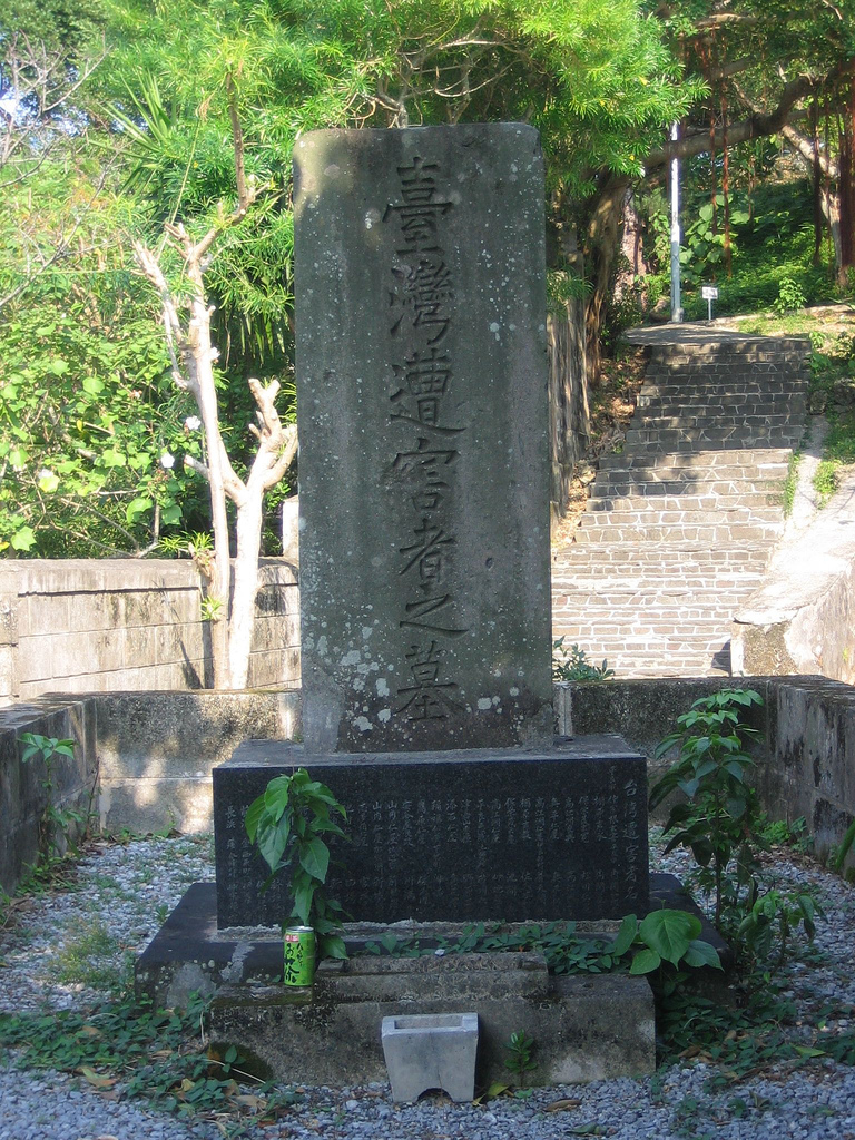 Victims Tomb of "Mudan incident" (1871) in Japan - Okinawa - Naha - Naminoue - Gokokuji-Temple